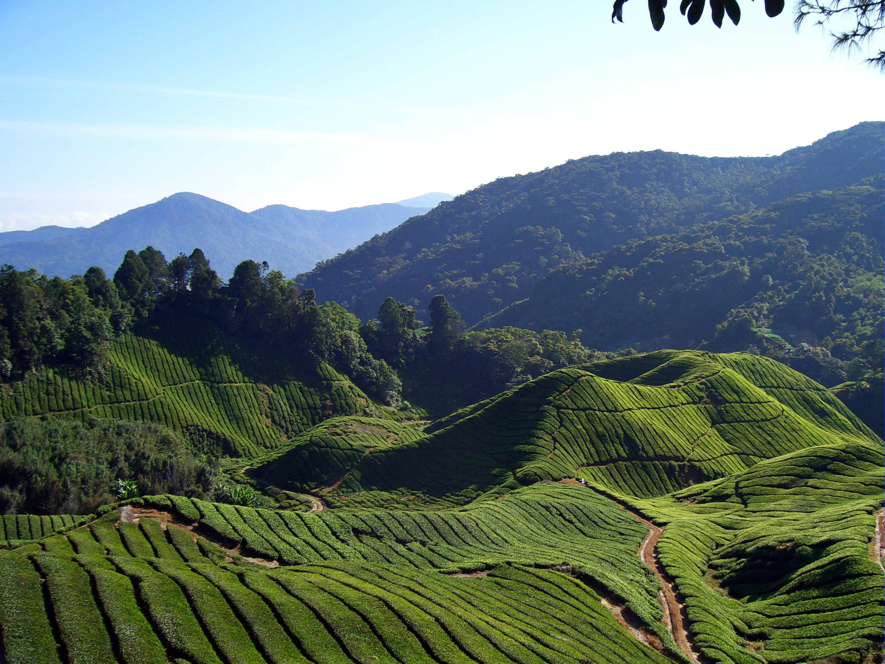 A view of Fields and fields of...... Tea in Cameron Highlands, Malaysia.